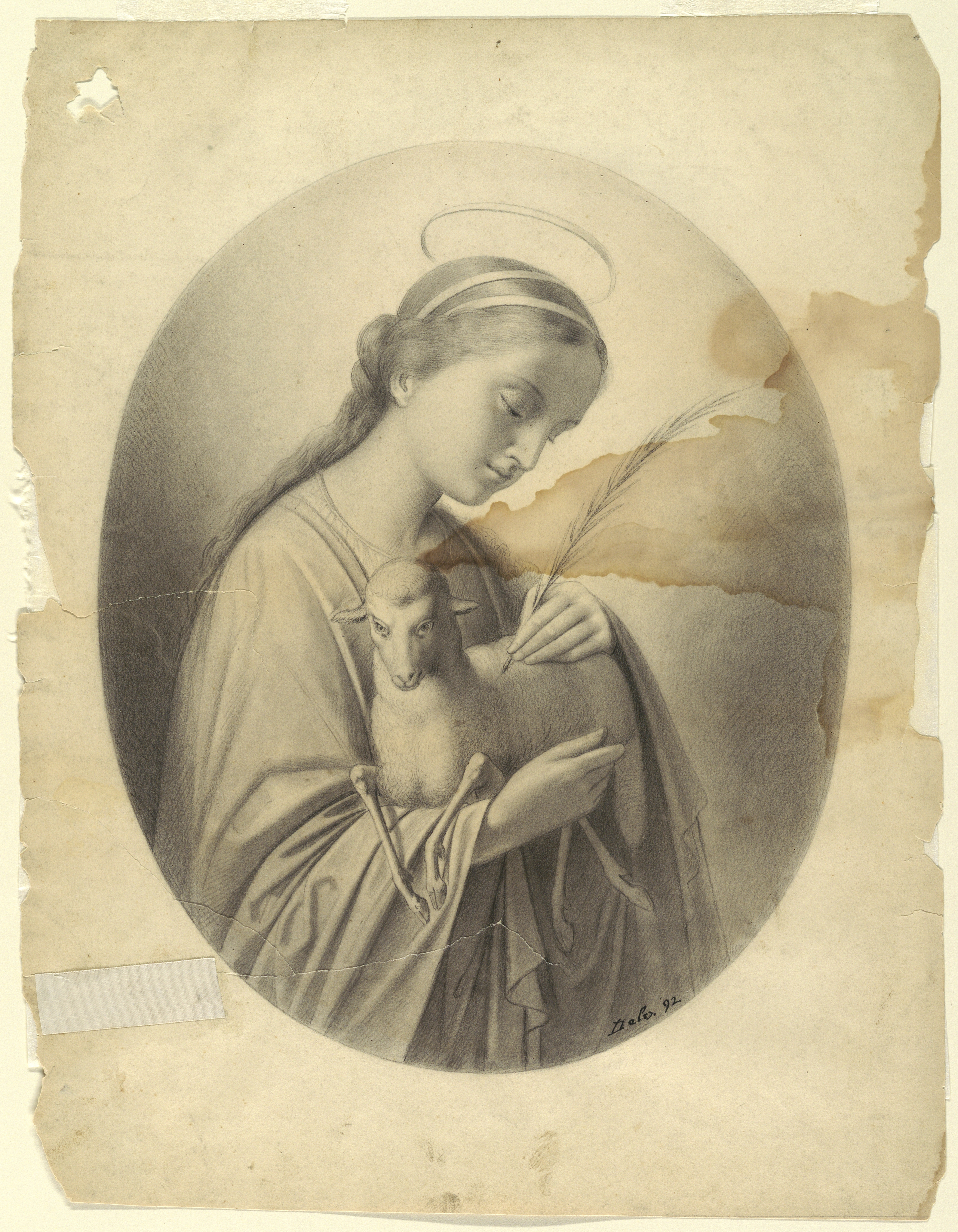 Within oval format, saint is seen facing half-right, holding a lamb in her arms and the palm of her martyrdom in her left hand. Halo over her head, and gaze is directed downward.